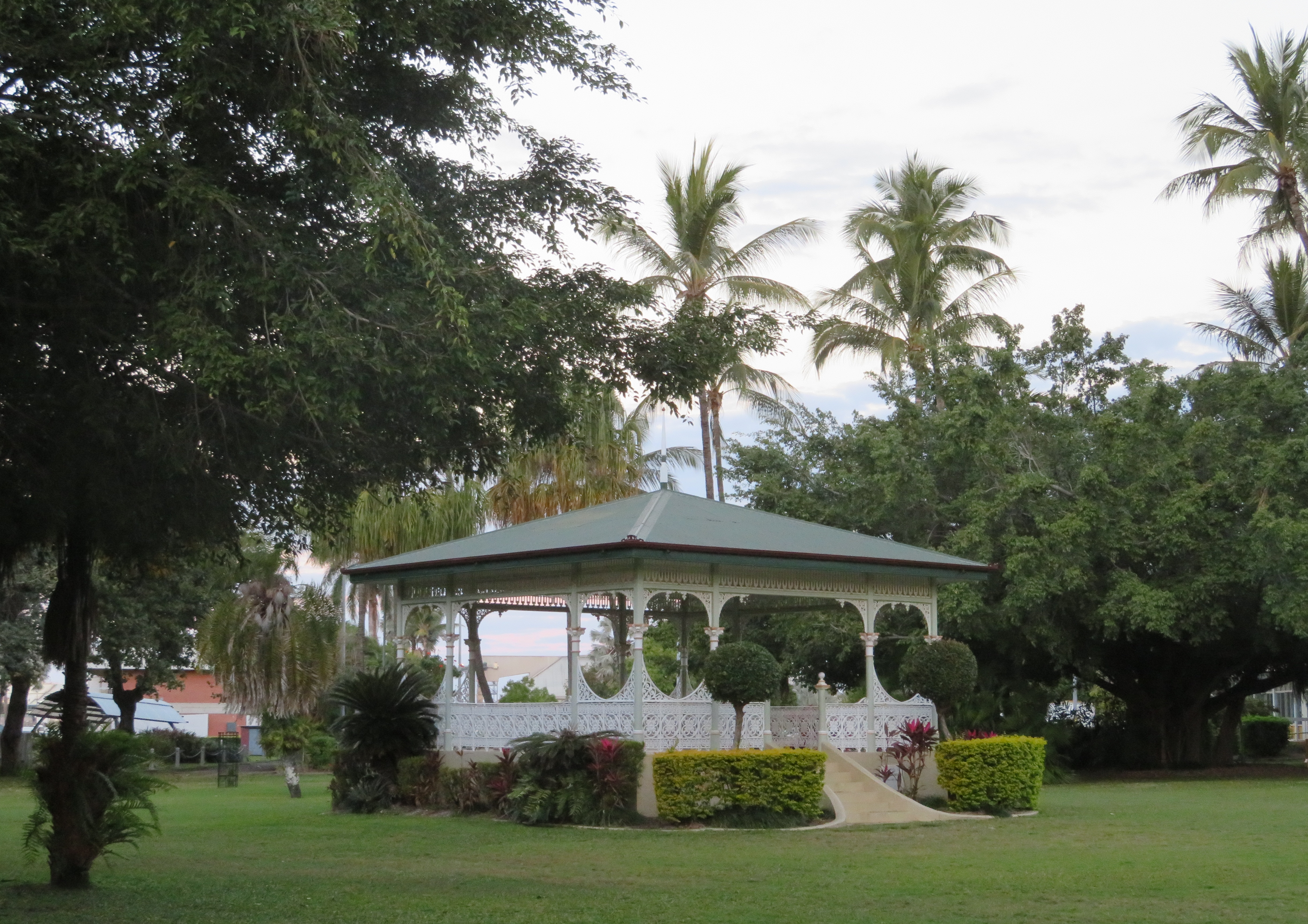 Bandstand (1913), Anzac Memorial Park, Townsville, Australia